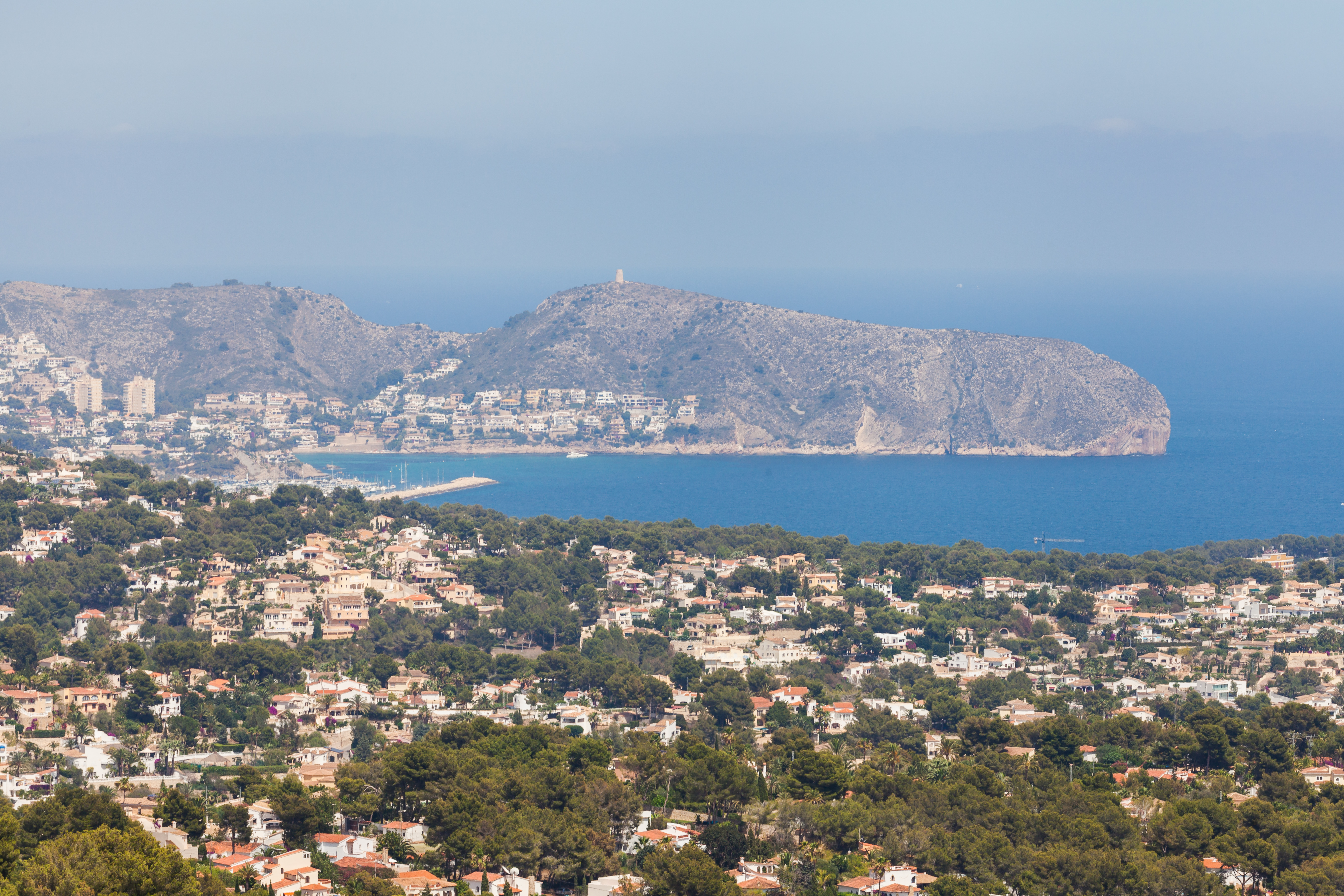 View of Calpe, Spain